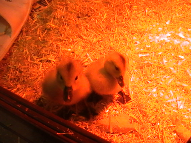 Domesticated ducklings